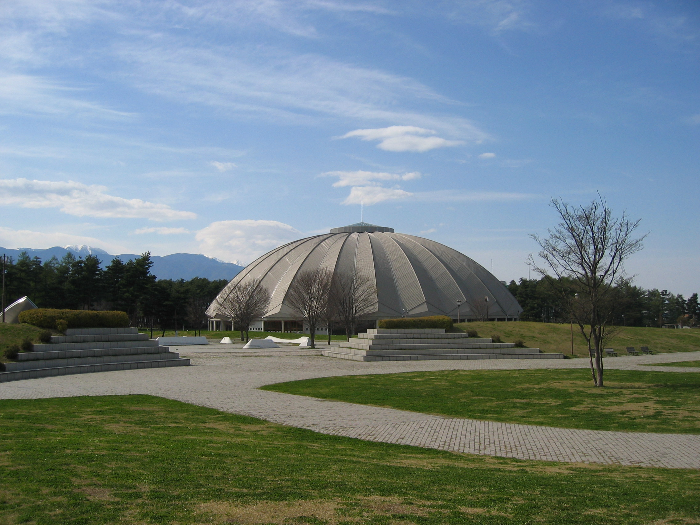 Yamabiko dome (やまびこドーム) is a dome in Matsumoto-shi, Nagano, Japan. On 1993, The Shinshu exhibition '93 (信州博 '93) was held at here. This dome was in the center of the exhibition grounds, it called The Global dome (グローバル・ドーム).